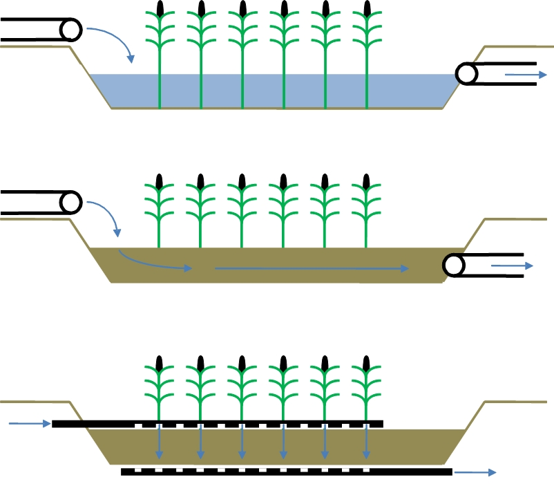 different types of constructed wetlands